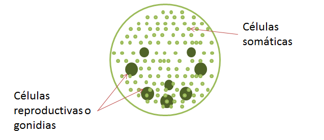 Células Reproductivas o Gonidas(16 en el máximo estadío de maduración). Células somáticas(2000*4000) Tasa de división alta. Sólo brindan motilidad a la colonia y posteriormente entran en senescencia